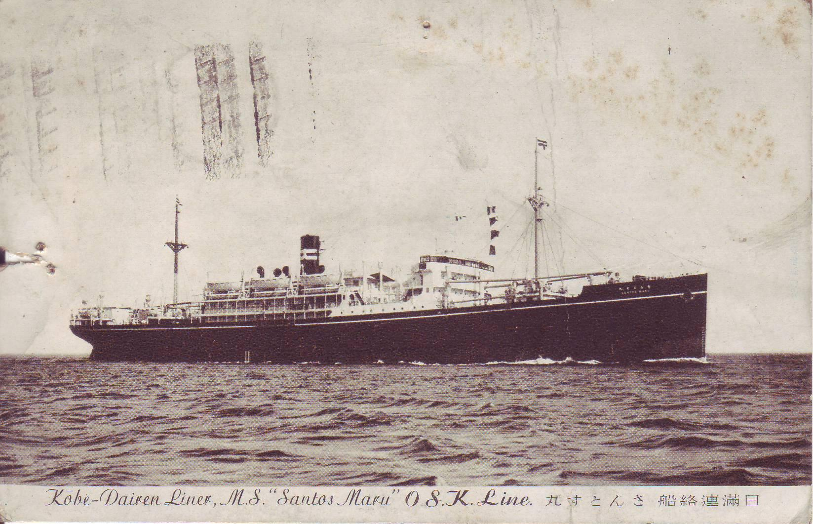 Kōbe-Dairen Liner, M.S. "Santos Maru" O.S.K. Line.